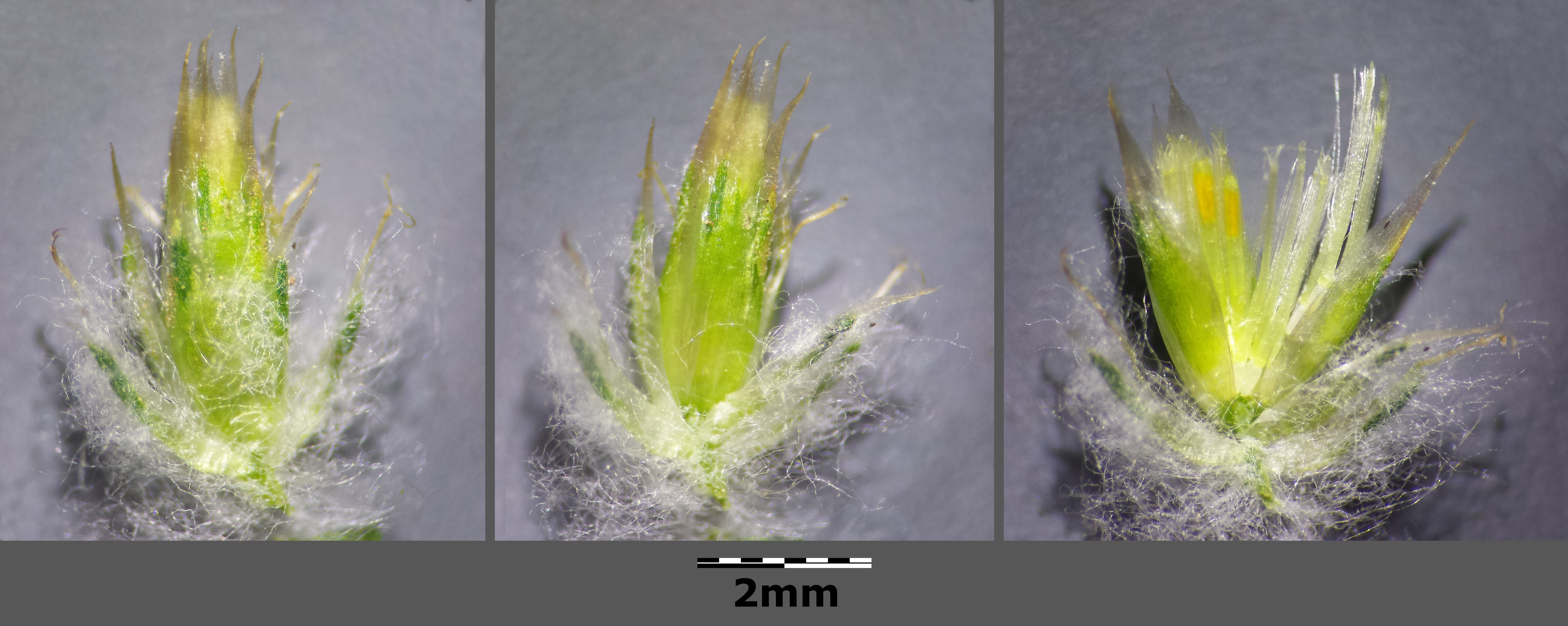 Flower head, opened step-by-step Taxonym: Filago vulgaris ss Fischer et al. EfÖLS 2008 ISBN 978-3-85474-187-9 Location: near Alte Schanzen, Floridsdorf, Vienna - ca. 225 m a.s.l. Habitat: wine yard